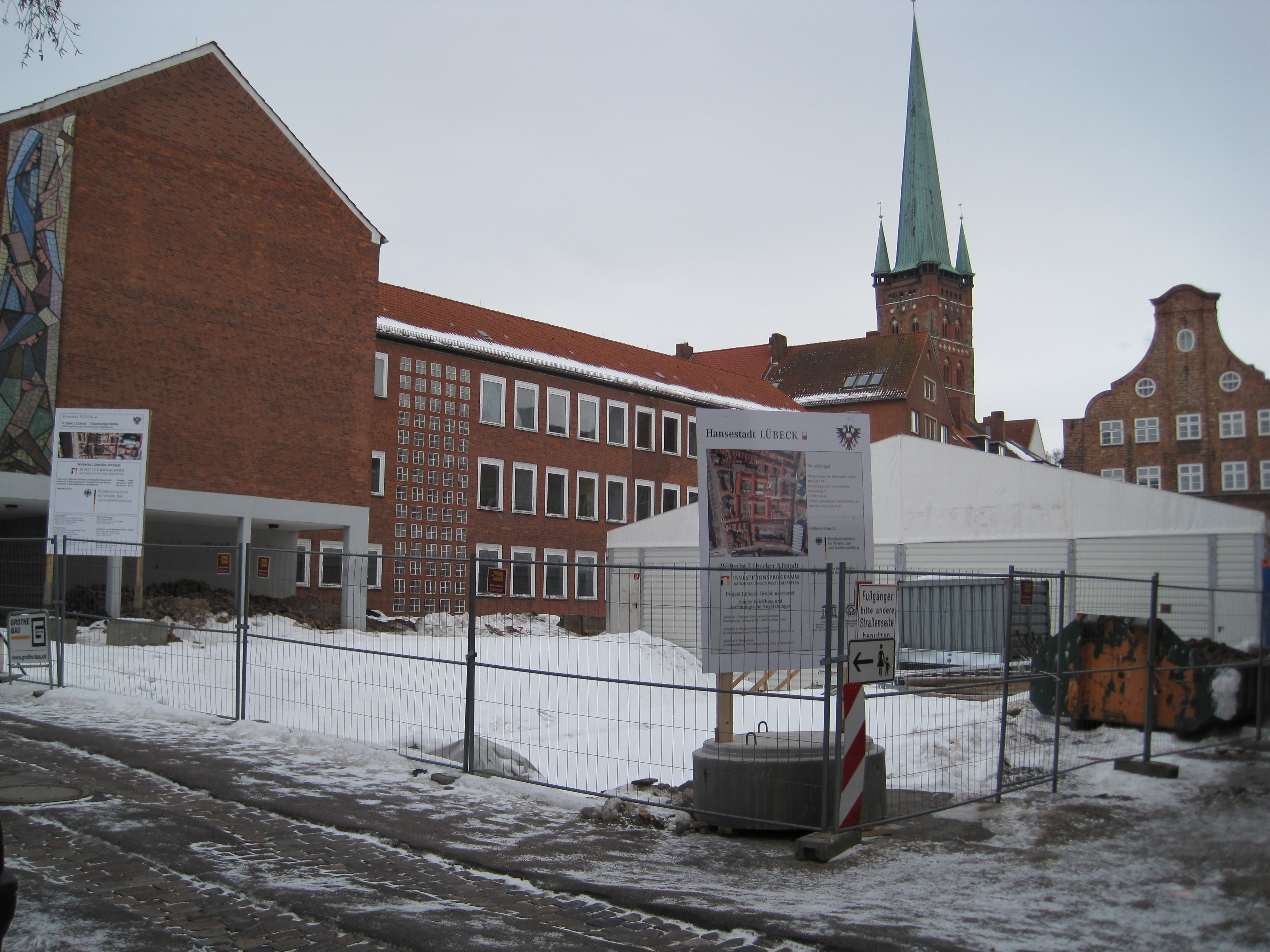 Archaeological excavations in Lübeck 2009/2010 Fischstraße